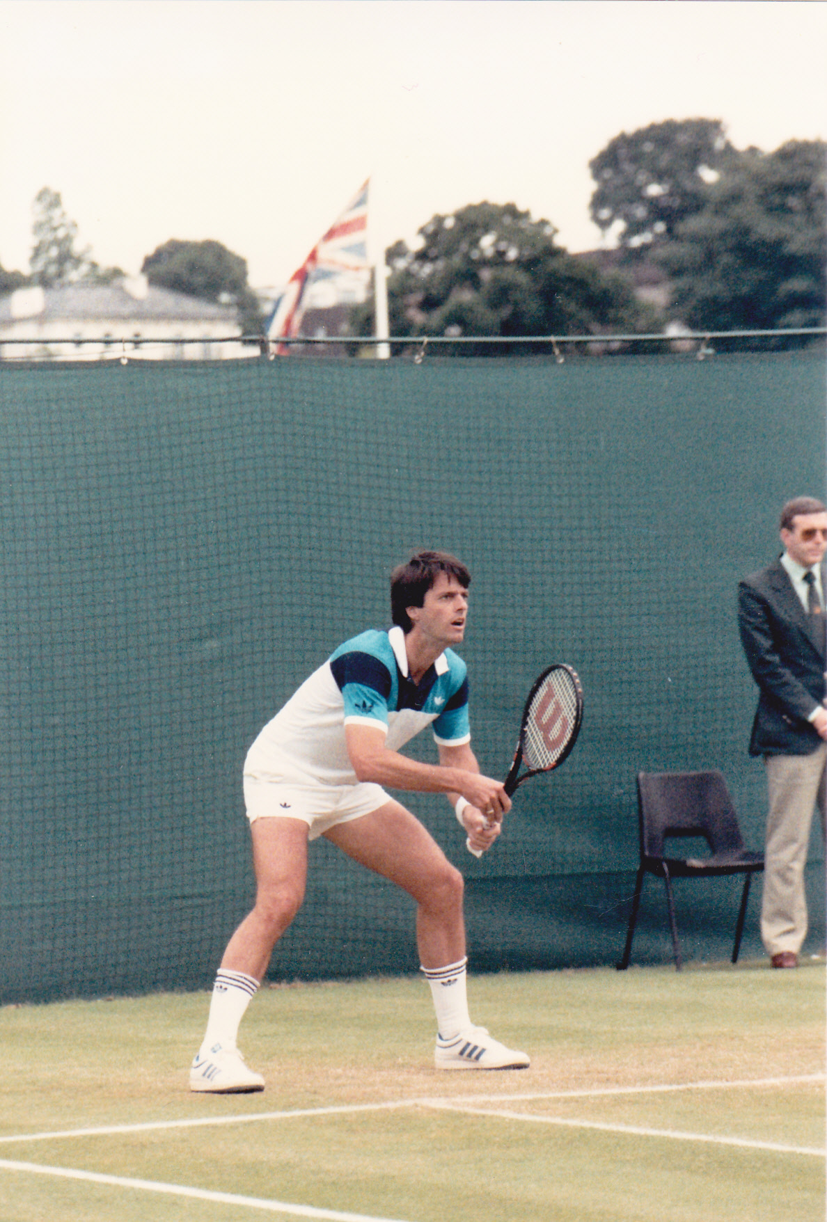 Terry Moor Wimbledon circa 1987